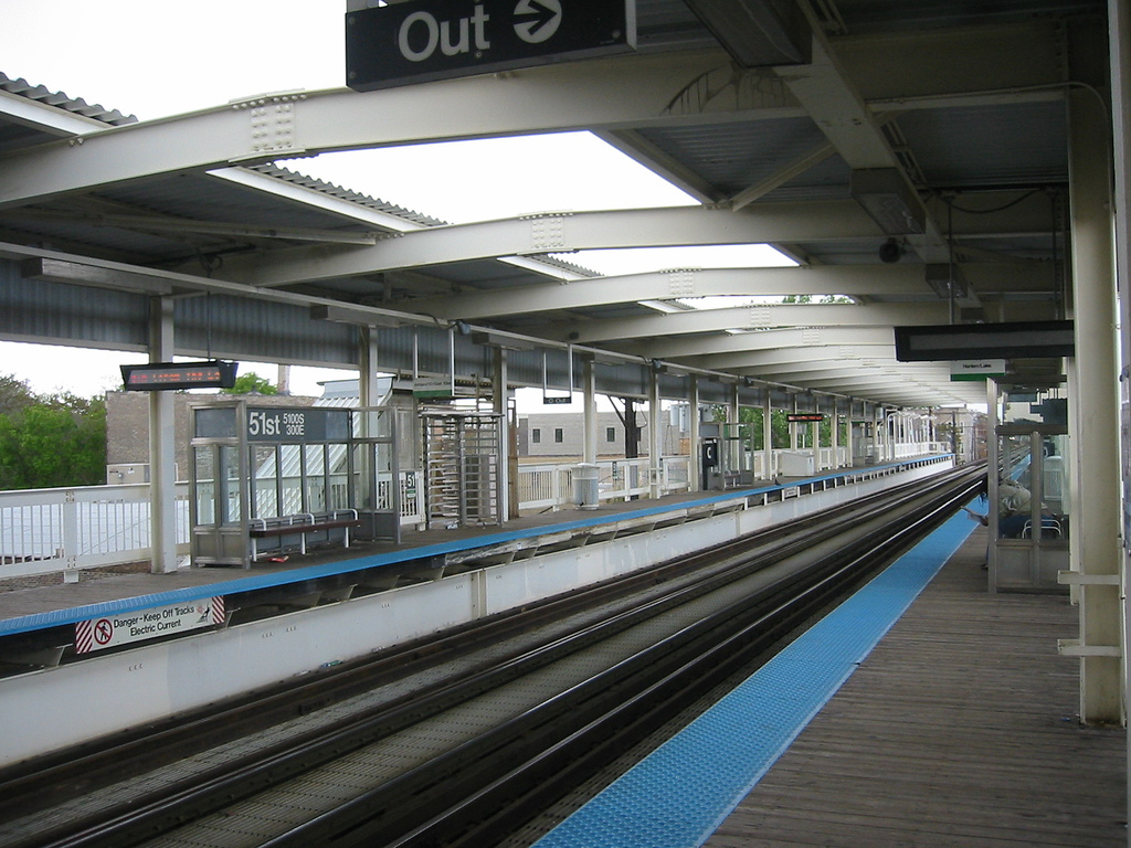 51st Station on the CTA Green Line